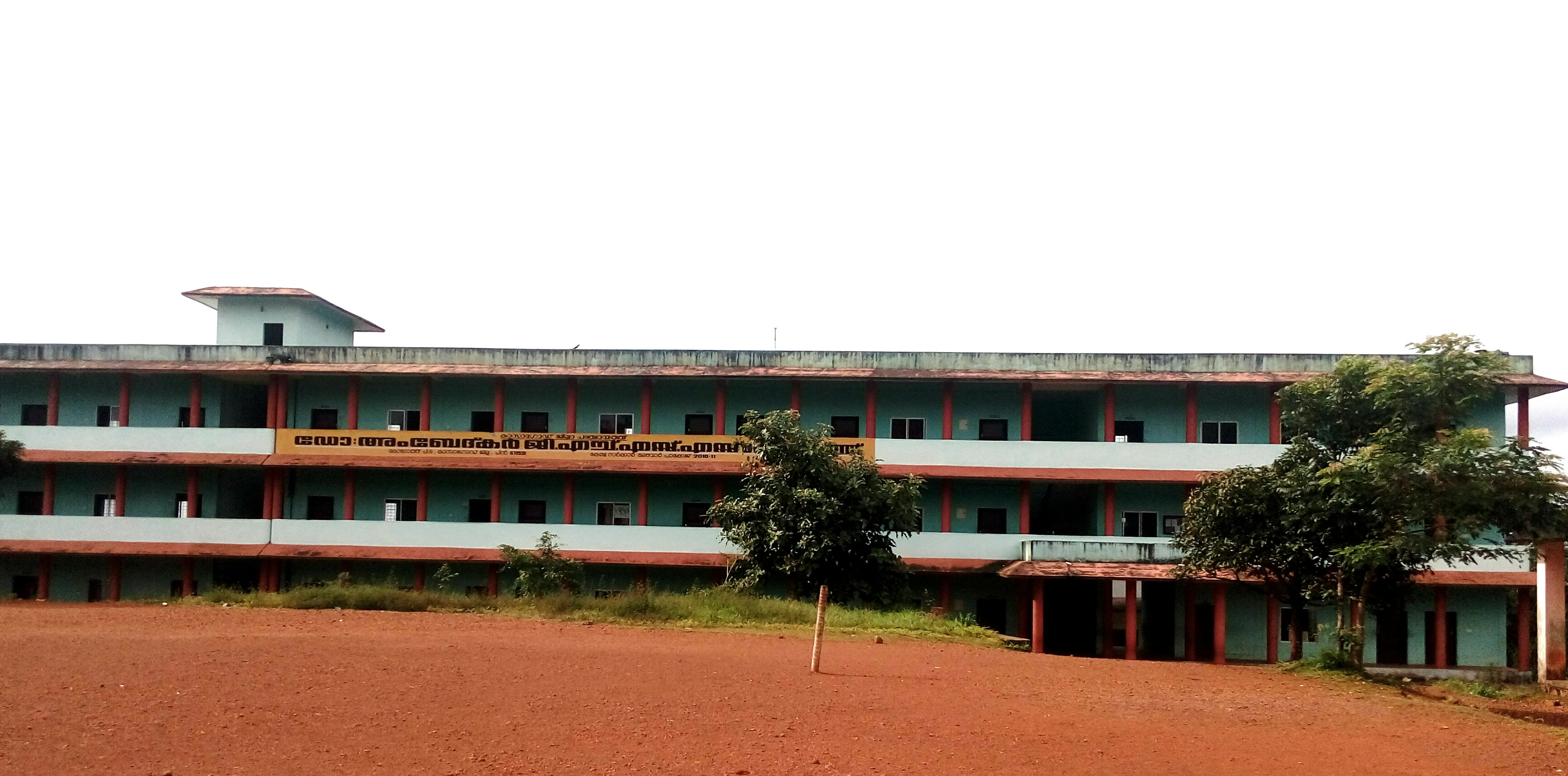 Kodoth Dr.Ambedkar GHSS higher secondary new block